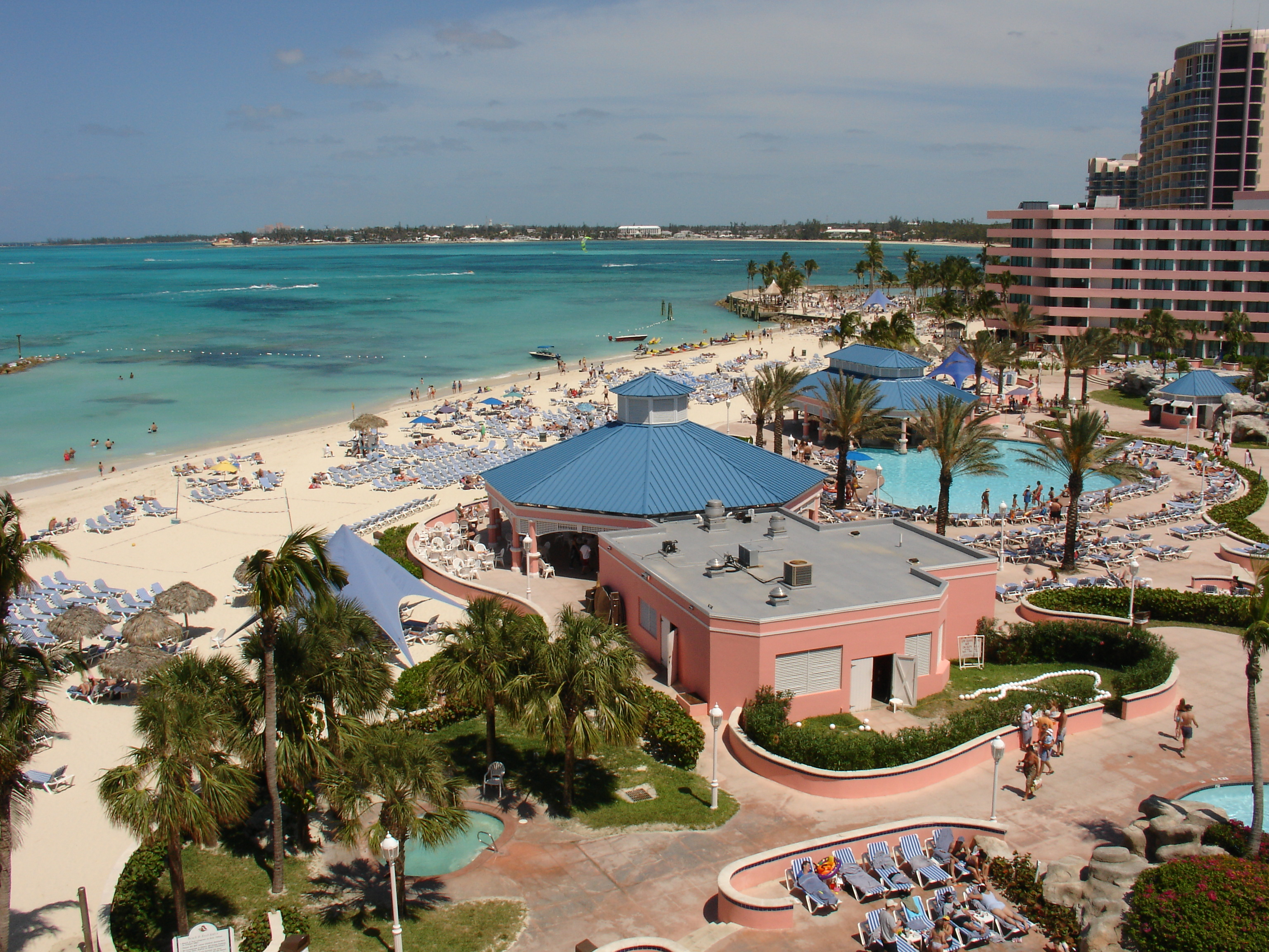 Hotel area in the Bahamas